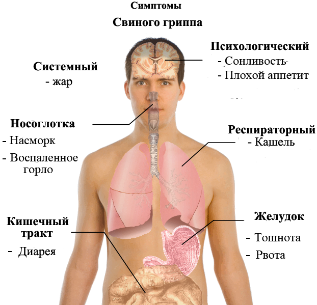 Swine flu symptoms